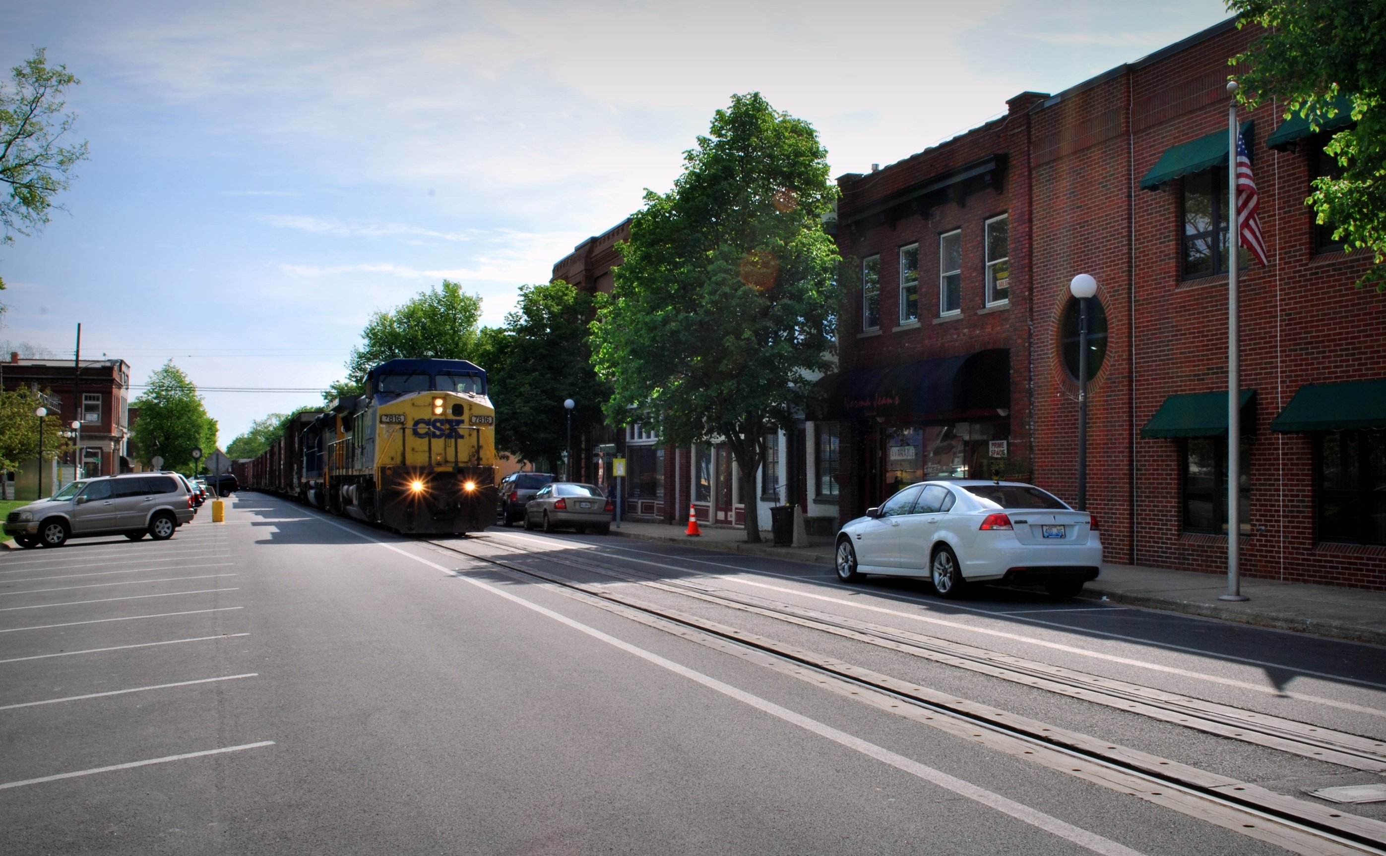 Train rolling along Main Street in La Grange, Kentucky, USA